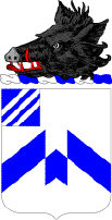 030th Infantry Regiment Coat of Arms